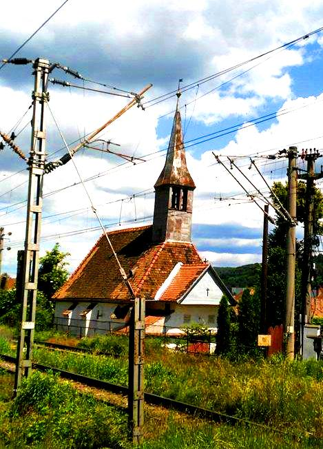 The external facade, from the other side of the railways, of the lepers church in Sighisoara